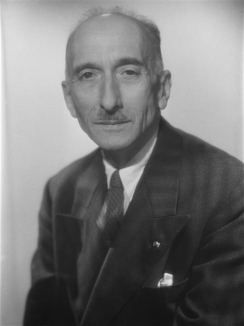 Studio photo